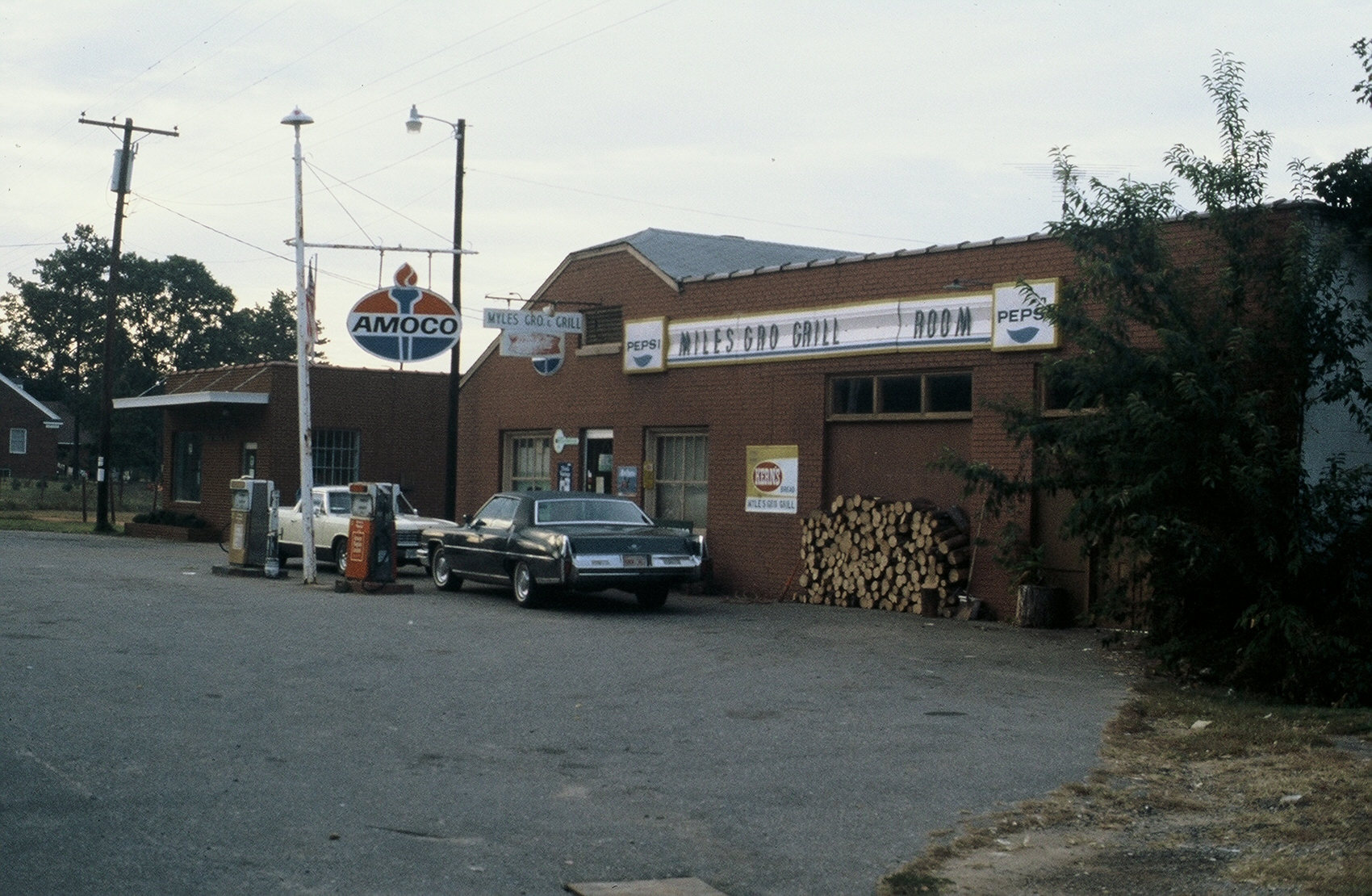 Union Grove Township, North Carolina, approximately 1982, showing Miles Grocery, filling station, and Union Grove Post Office. Photograph taken with 35 mm camera by G. Moore